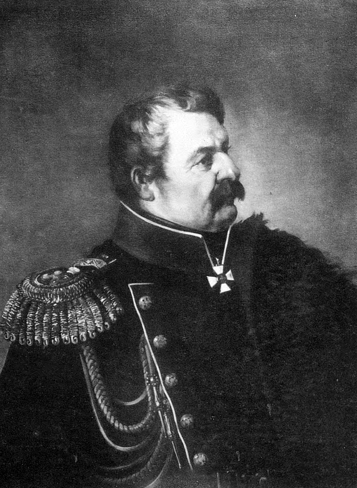 Argoutinsky-Dolgorukov, Mikhael Petrovich